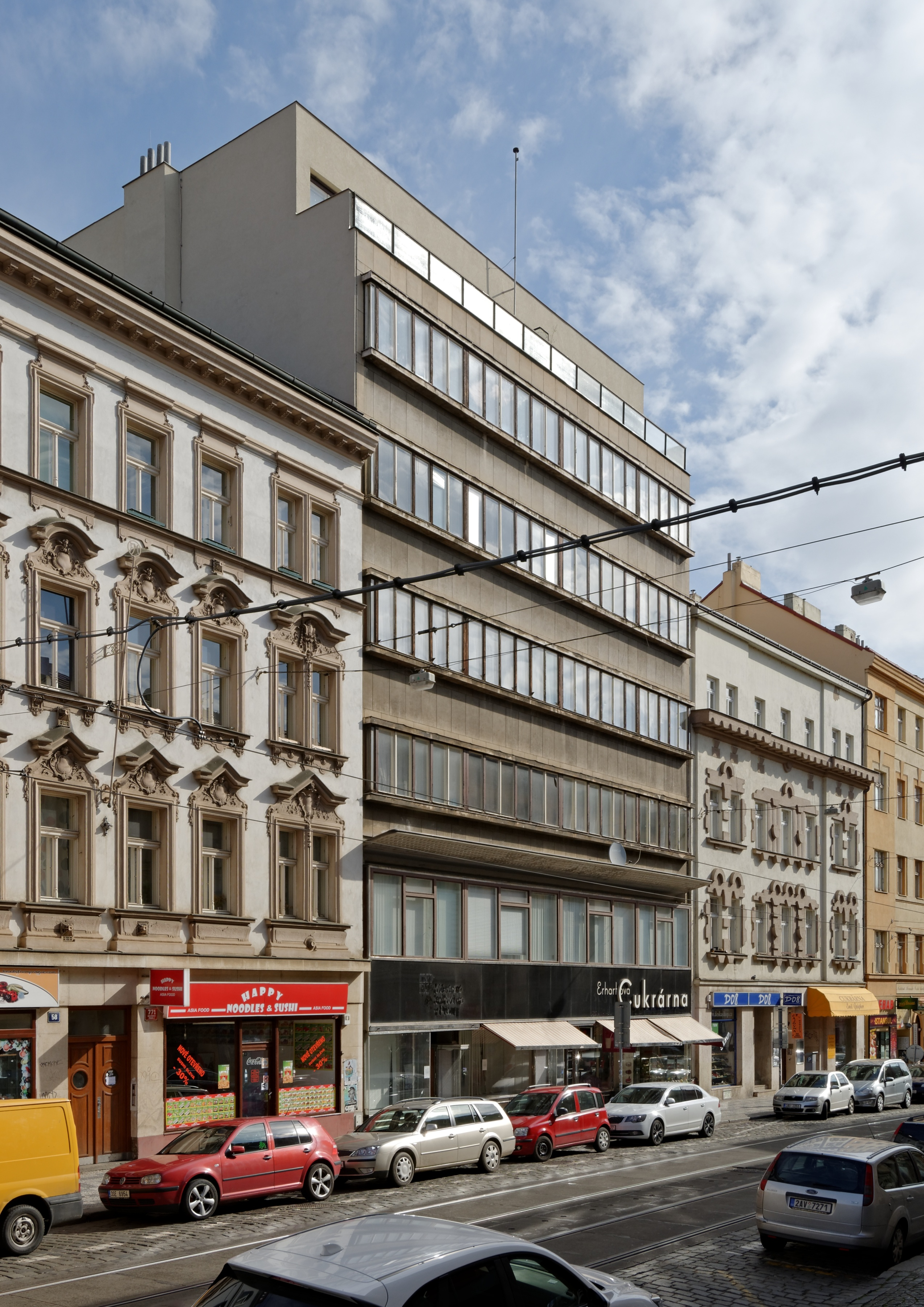 Eugen Rosenberg: Letná Palace, Prague 7 -Holešovice, Milady Horákové 387/56, Built in 1937.